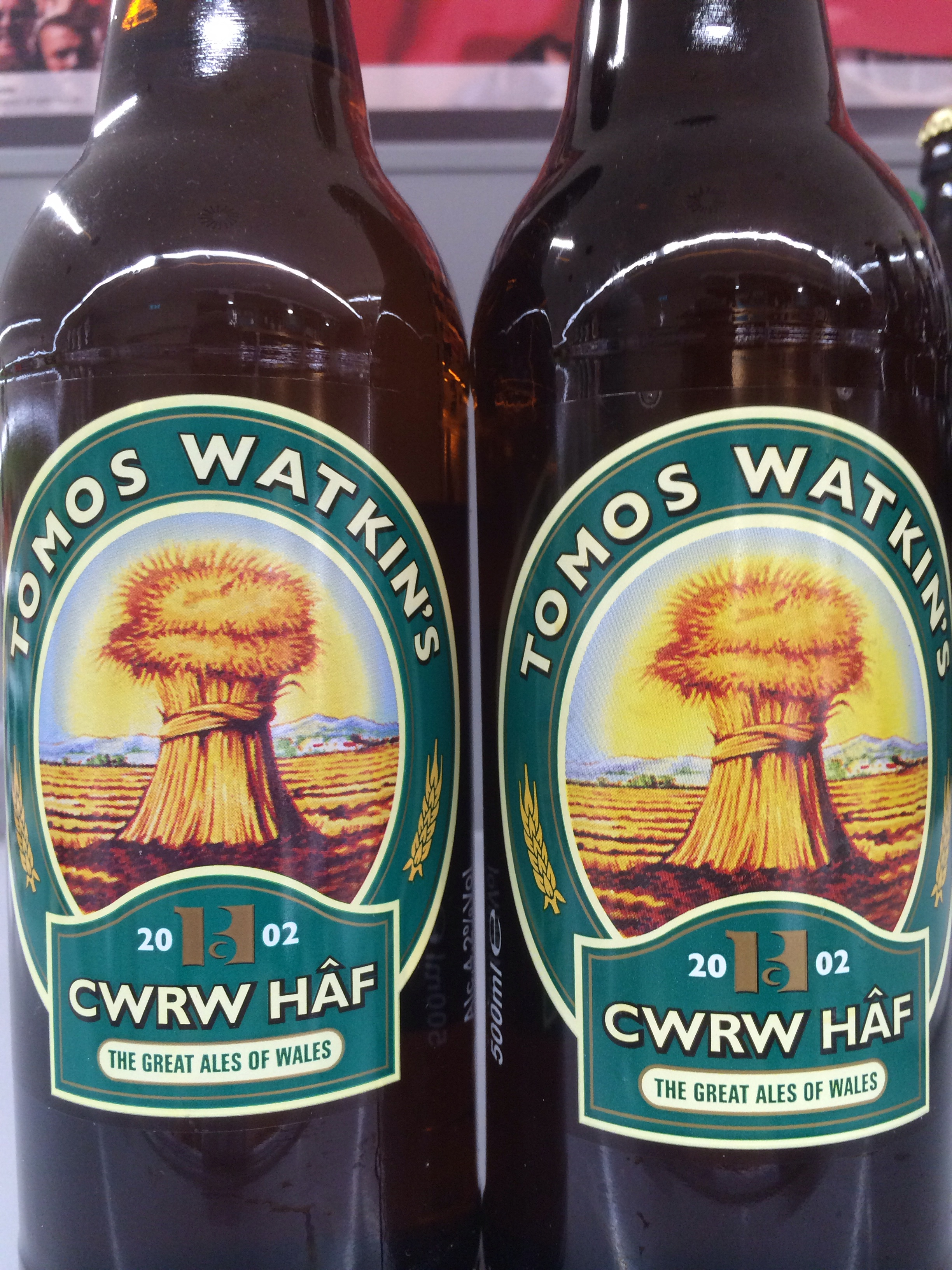 Two bottles of Cwrw Haf ale produced by Tomos Watkins brewery on sale in Swansea